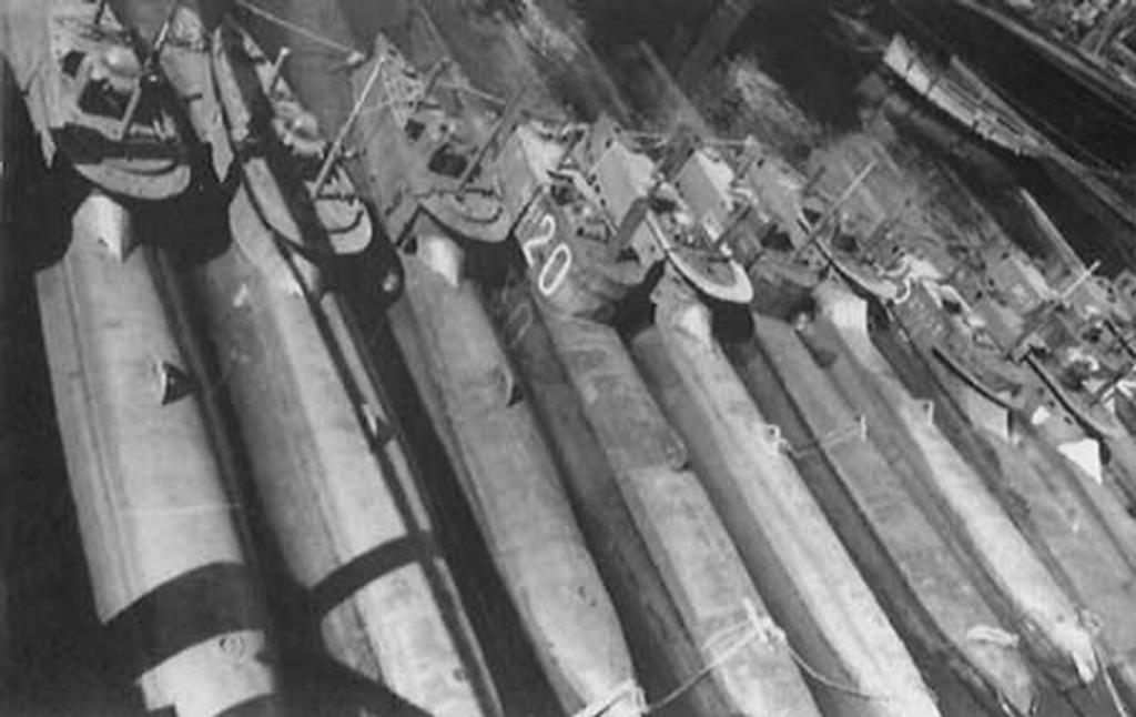 A bunsh of captured Seehund